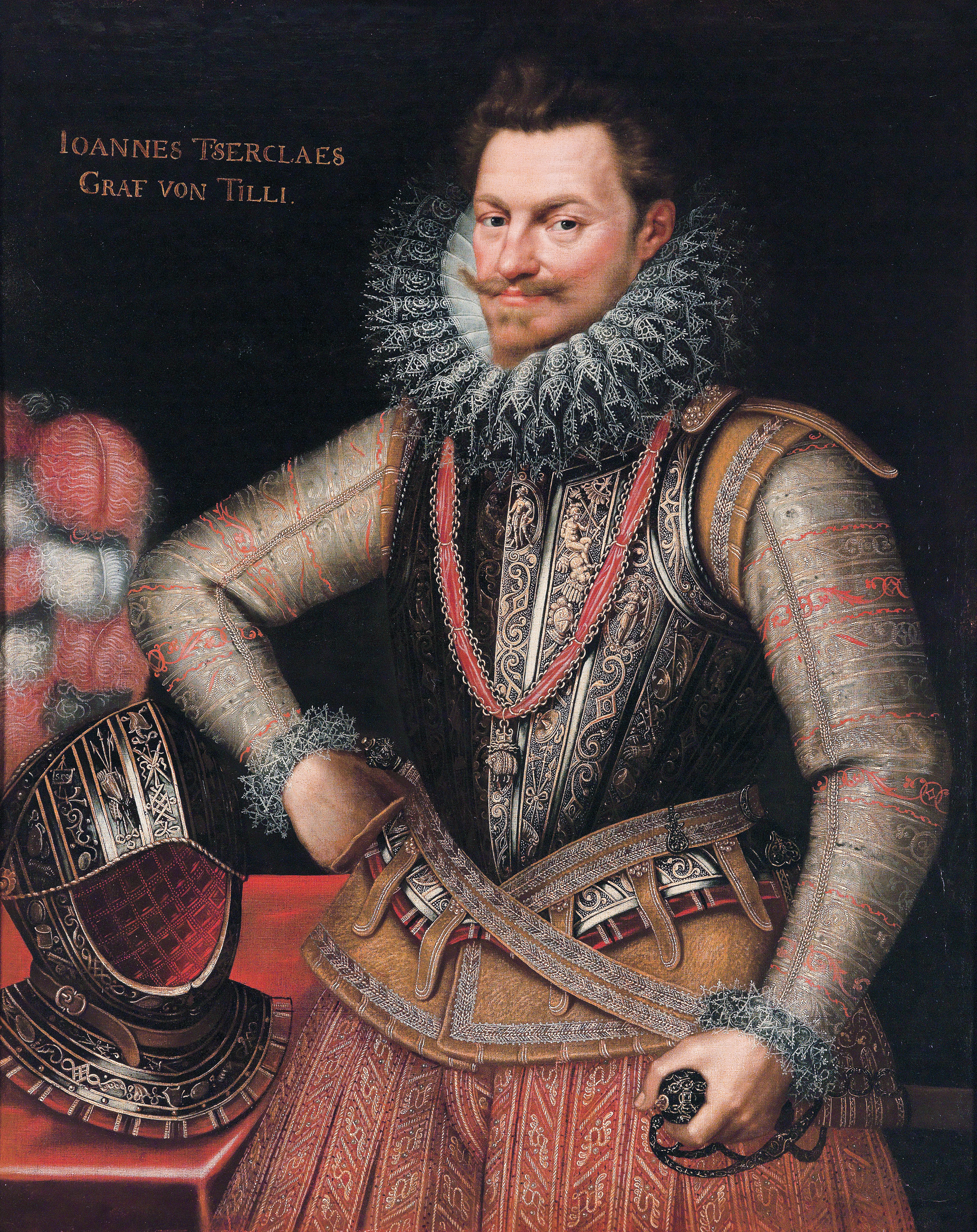 Portrait of Prince Philip William of Orange (1554–1618) in a cuirass and with the Order of the Golden Fleece oil on canvas 102 x 83 cm*inscribed t.l.: Joannes Tserclaes/Graf von Tilli 1599-1600